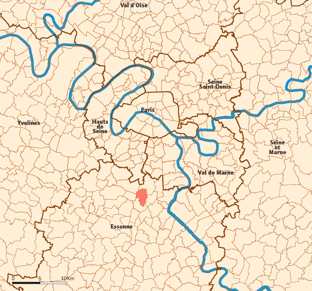 Created map myself.